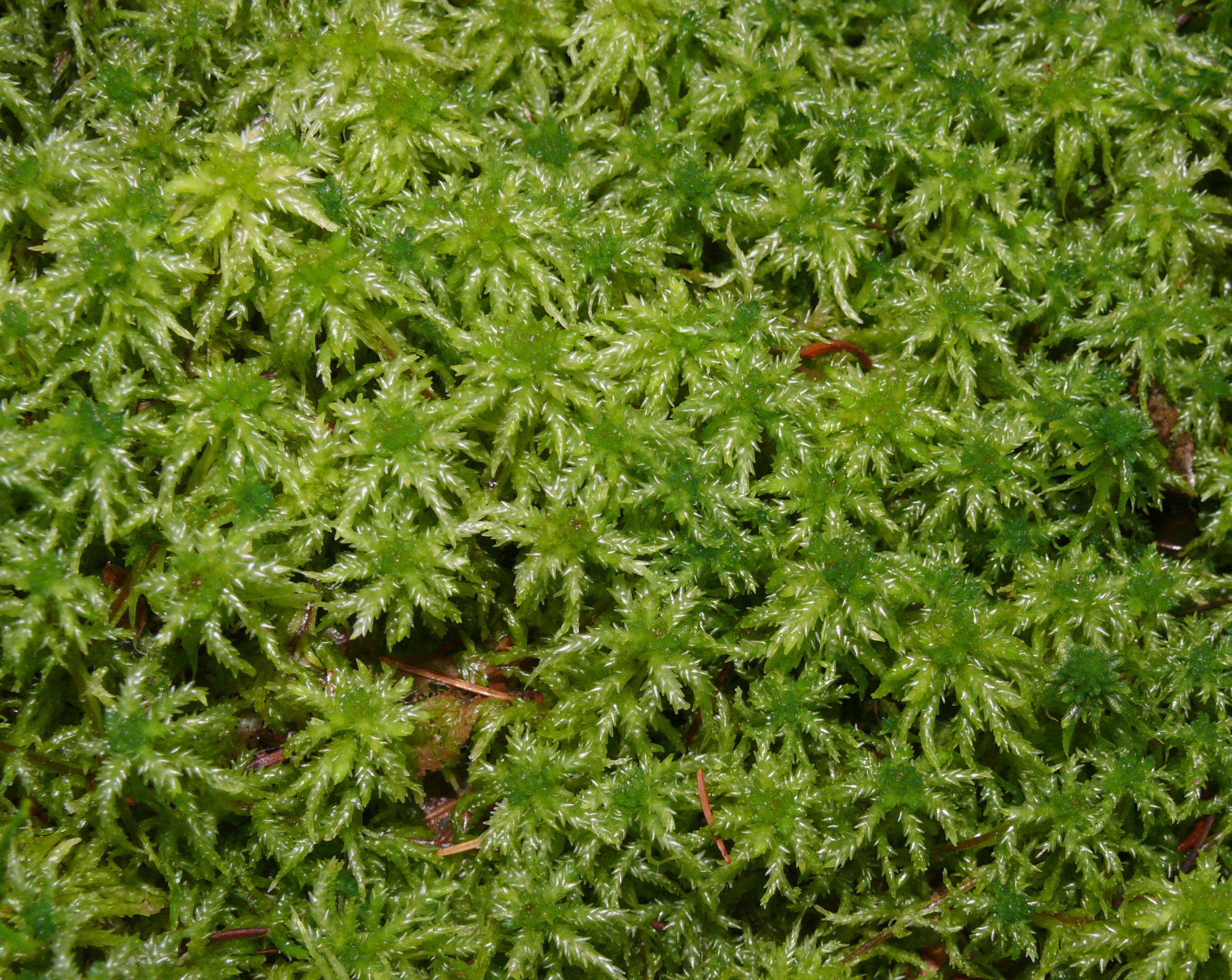 Sphagnum magellanicum growing in more or less deep shade hence the green color, Schwäbisch-Fränkische Waldberge, Germany